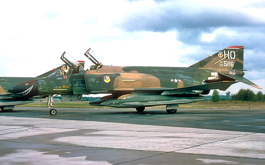 9th Tactical Fighter Squadron, 49th Tactical Fighter WingMcDonnell F-4D Phantom II 65-0586, Holloman AFB, New Mexico. Aircraft retired to AMARC as FP541 Jul 12, 1990. To Saylor Creek, ID for target Oct 8, 1998